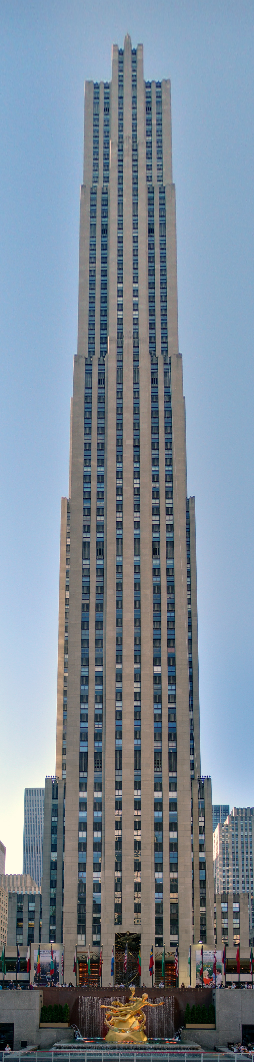 Rockfeller Center’s GE Building, New York